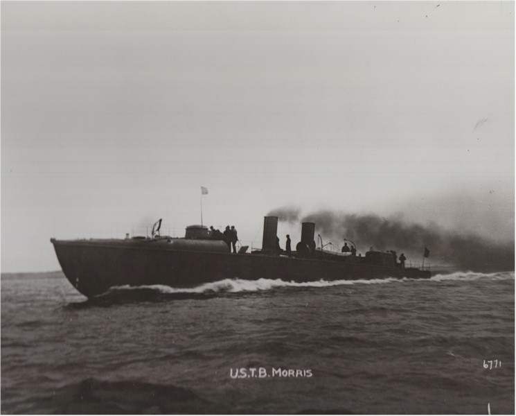 USS Morris (TB-14) circa 1898. This is a slightly different version of NH 67082.